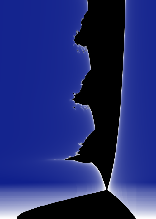 Multibrot rendered with the real axis as the horizontal and the exponent as the vertical, the imaginary value fixed at zero.